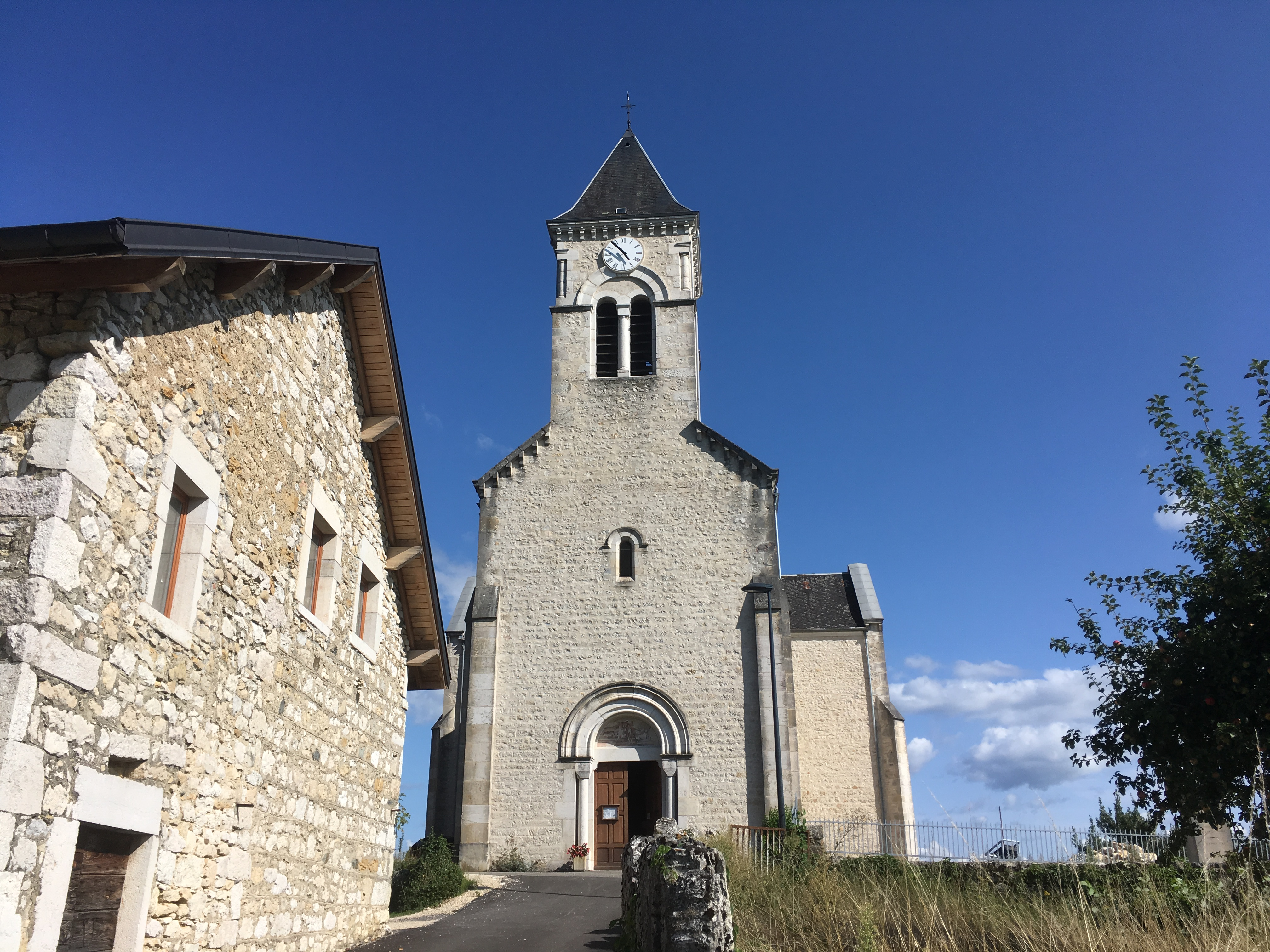 The Church of Saint-Martin-de-Bavel (Ain department, France). August 2017